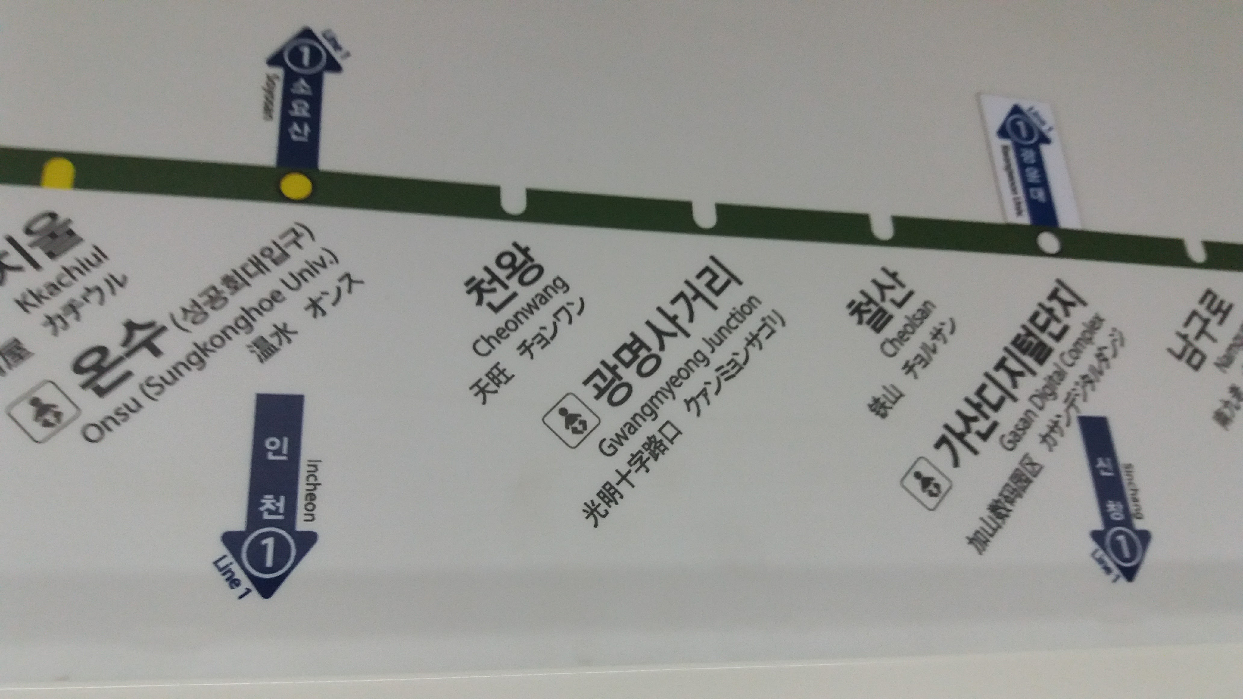 Gwangmyeongsageori Station as displayed Gwangmyeong Junction Station